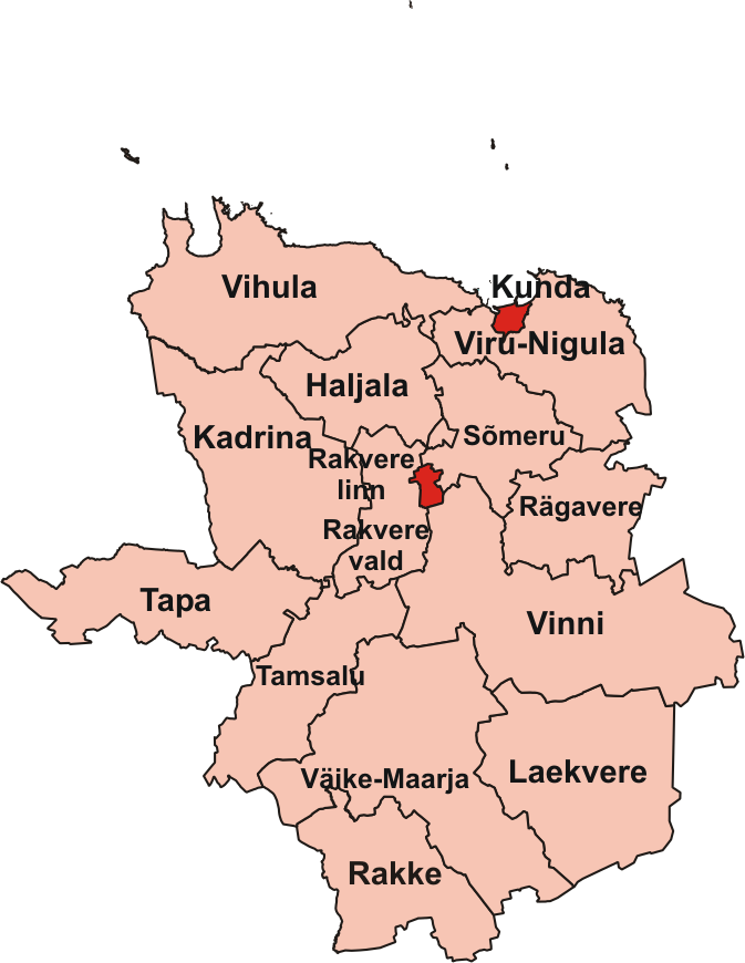 Created using Estonian Land Board data as of 1.01.2006